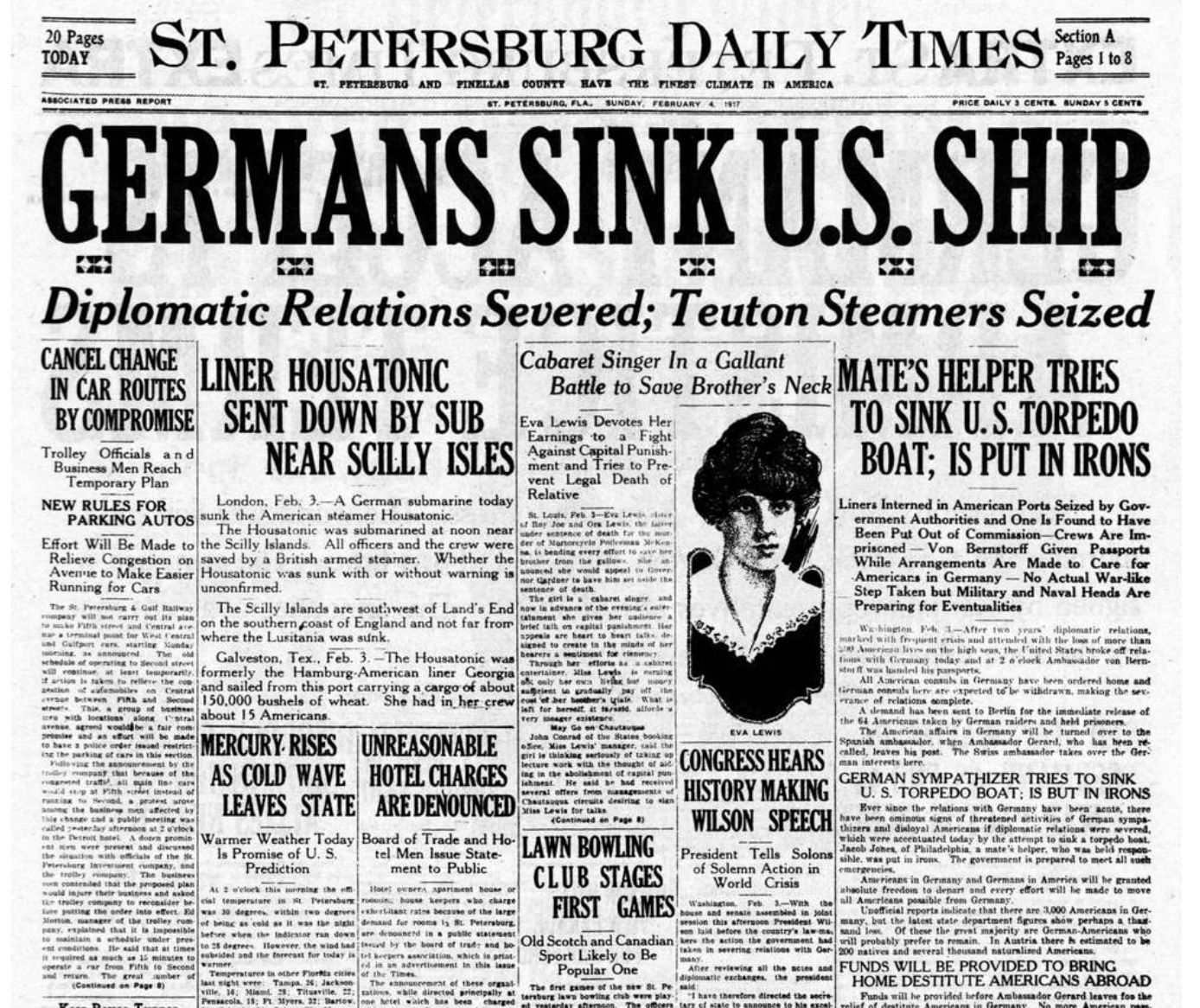 St. Petersburg Times (Florida) headline of February 4, 1917, announcing the sinking of SS Housatonic by a German U-boat and the U.S. severing of diplomatic relations with Germany.